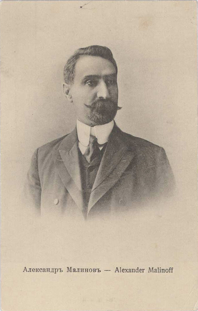 Aleksandar Malinov on a postcard issued by "Ivan K. Bozhinov" publisher.